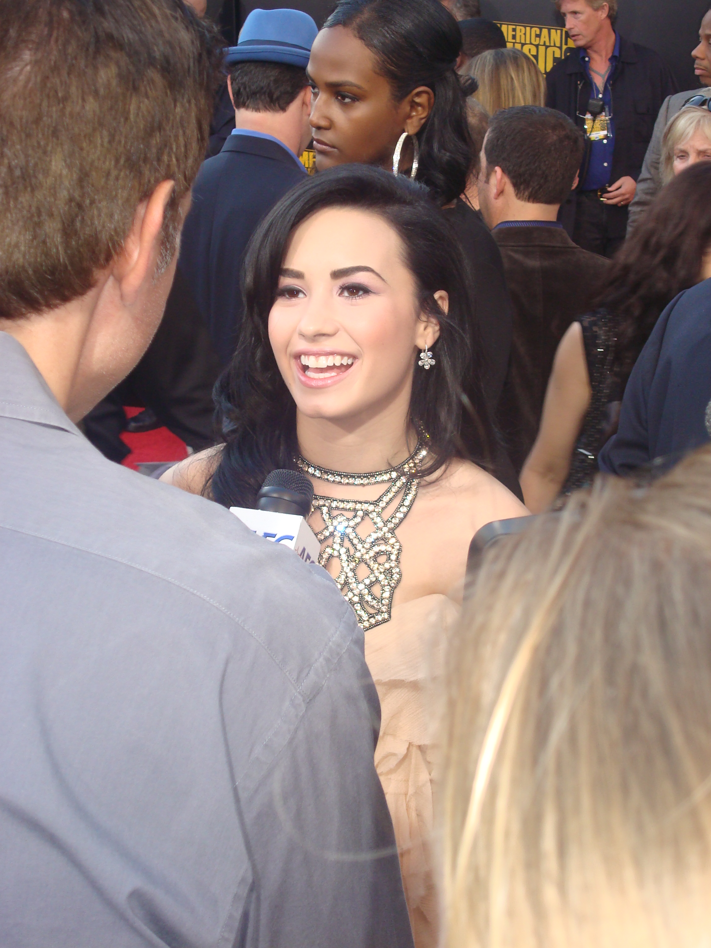 Demi Lovato at the 2009 American Music Awards Red Carpet